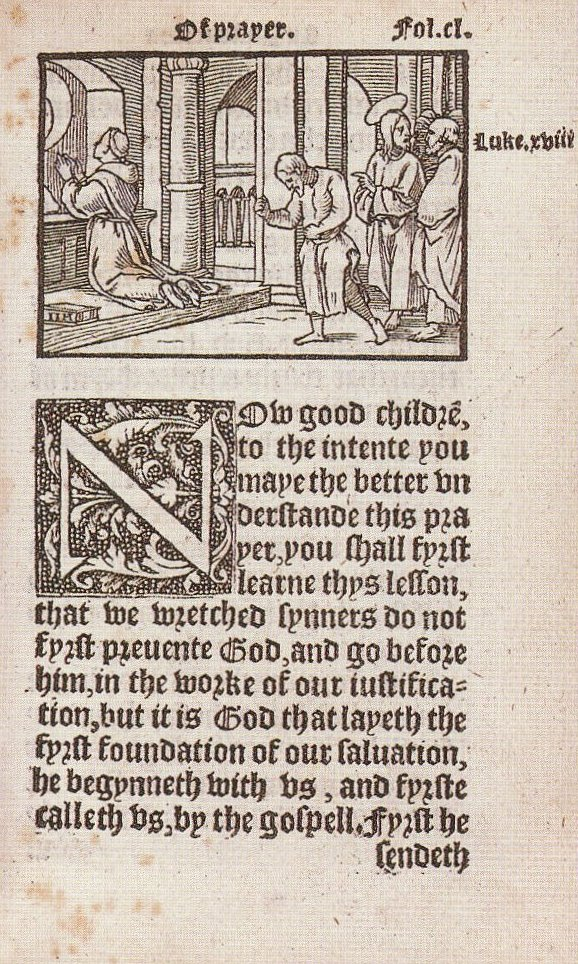 The Pharisee and the Publican, published in Thomas Cranmer's Catechismus. Woodcut, 4.2 × 4.9 cm, British Museum, London. One of a group of prints relating to the Dissolution of the Monasteries during the English Reformation. Figures in the pictures are depicted as monks, in less than flattering situations. The woodcuts were produced at a time when reformers satirised monks mercilessly.